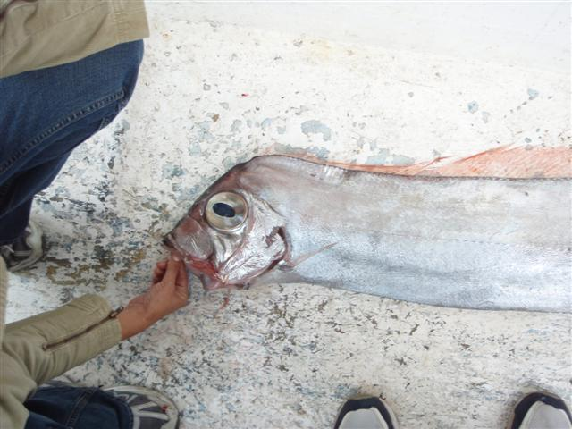 Trachipterus arcticus collected in USA.